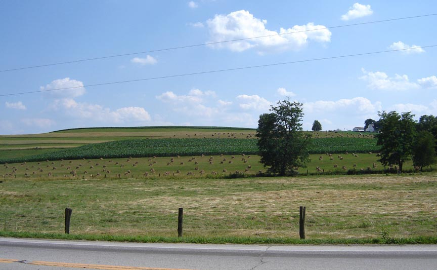 Ohio - Holmes County Road 557 - View from Farmerstown Furniture 07-08-07 By:Mike Sharp.